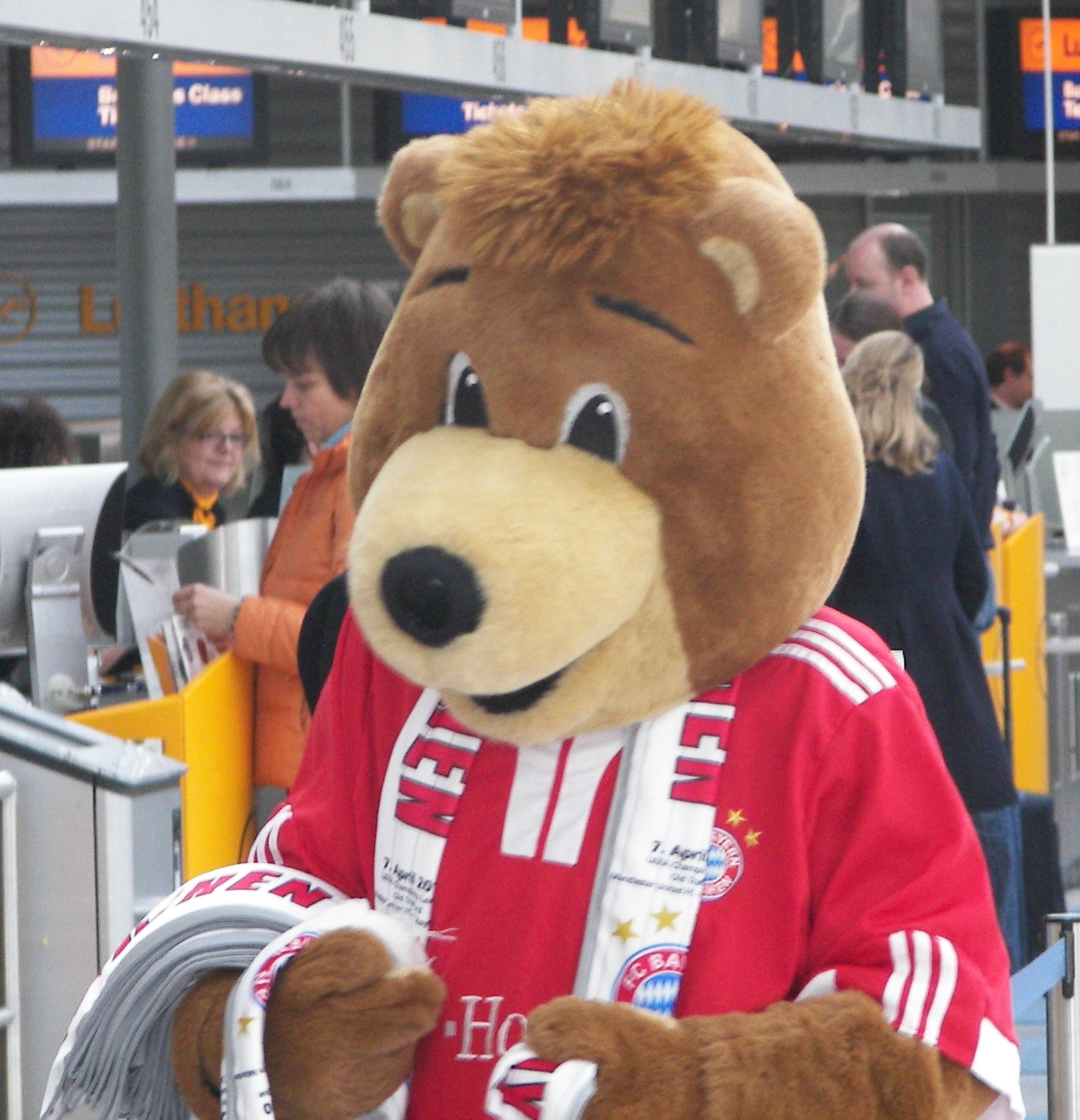 FC Bayern Munich's mascot Berni.